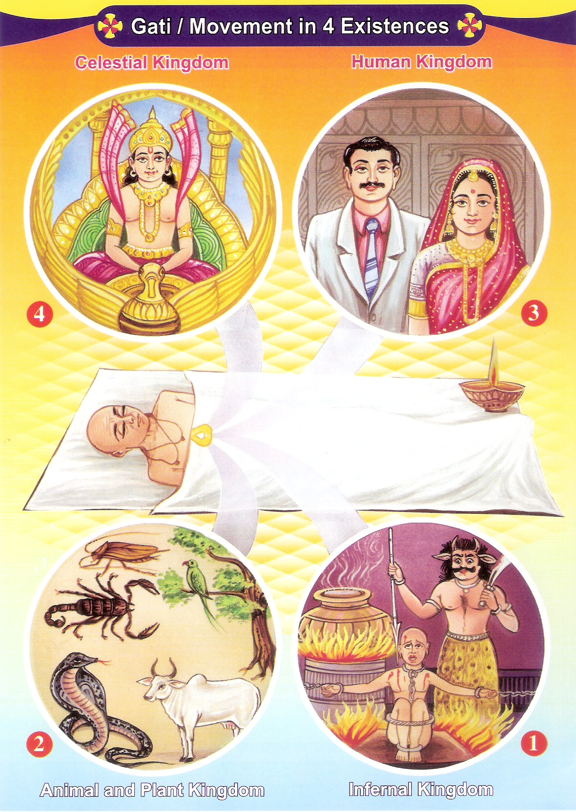 This image four movements to four destinies of the soul as per the Jain theory of Karma